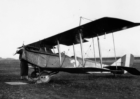 A Curtiss JN-6H on the flightline.